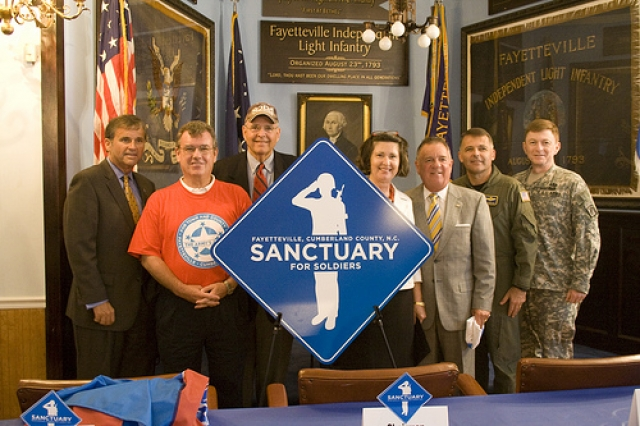 A sign for the Sanctuary for Soldiers being displayed in downtown Fayetteville at the Independent Light Infantry building with commanders and leaders from Ft Bragg and Fayetteville.